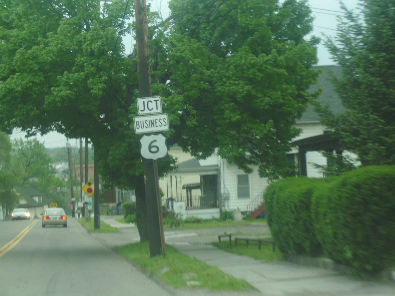 The final few yards of Pennsylvania Route 171 southbound in Carbondale, Pennsylvania. As the sign assembly indicates, PA 171 intersects US 6 Business in the background, where it terminates.